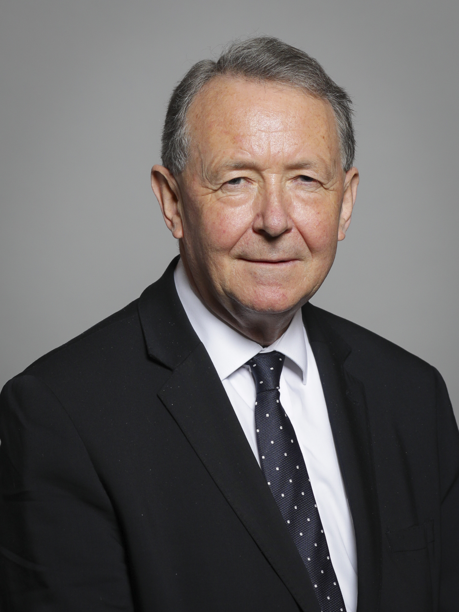 Official portrait of Lord Alton of Liverpool 3×4 portrait of Lord Alton of Liverpool